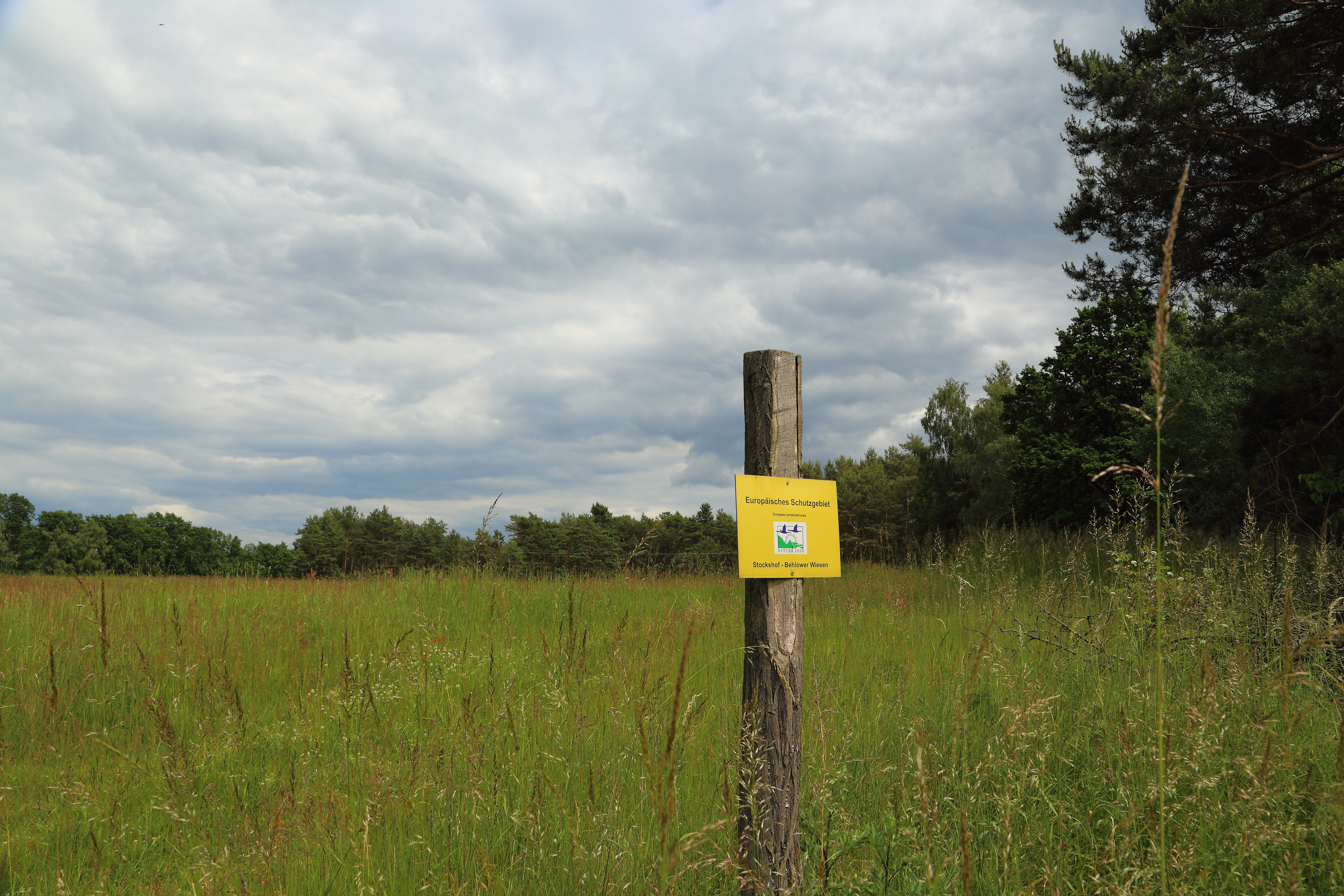 Meadow in Doberburg, district of Lieberose, Landkreis Dahme-Spreewald, Brandenburg, Germany. The meadow belongs to the nature reserve (Naturschutzgebiet/NSG) „Stockshof - Behlower Wiesen“.